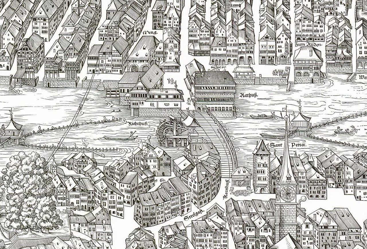 View of the city of Zürich on a xylography by Josua Murer, 1576. The original headline can be roughly translated into "The ancient widely known city Zürich's design and positioning, as its essense/character is projected and build at this time by Josen Murer, and printed by Christoffel Froschauer in 1576 in honour of the fatherland."